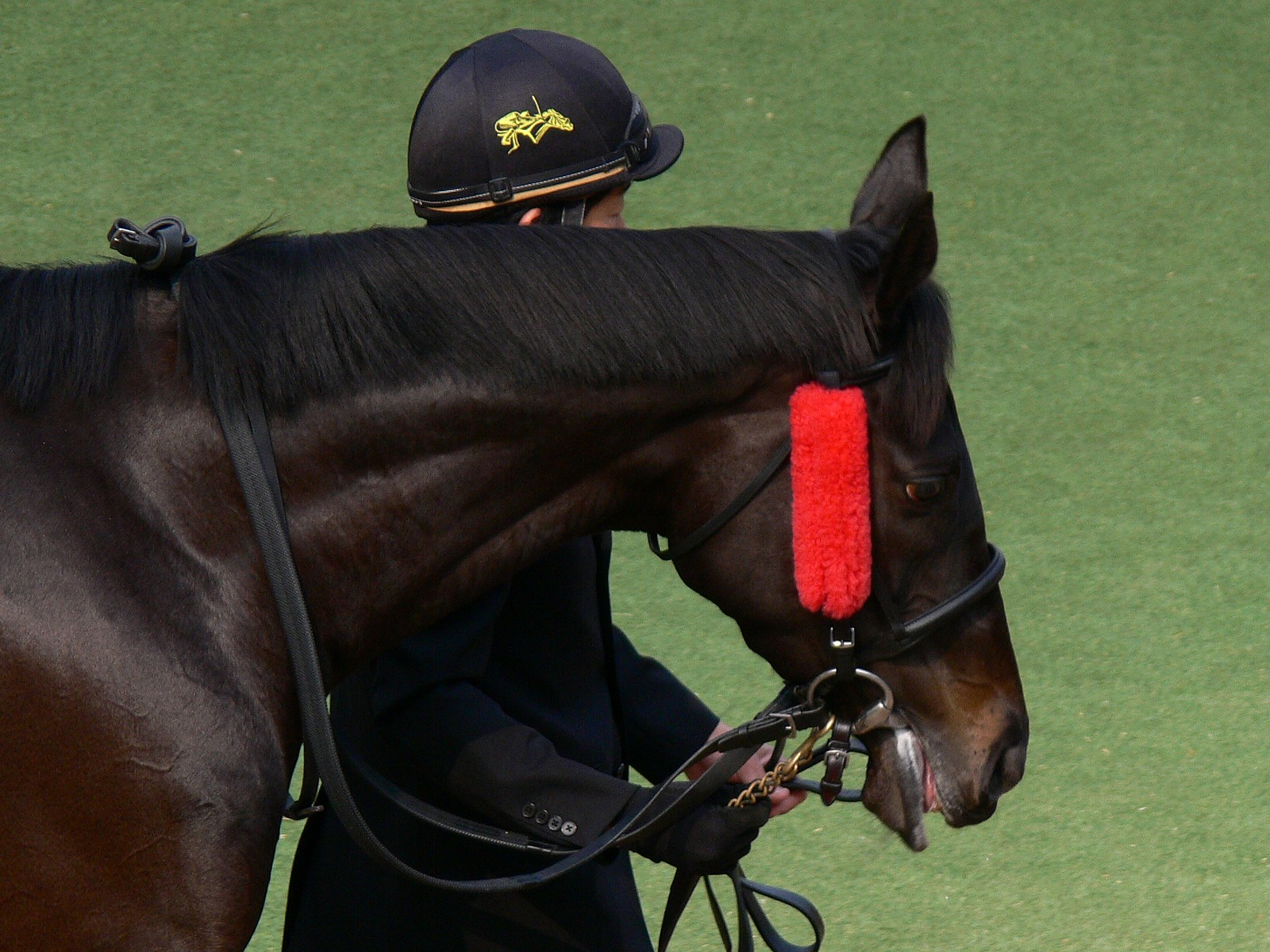 Horse wearing "Australian-winkers"(Perfect Joy(JPN)).